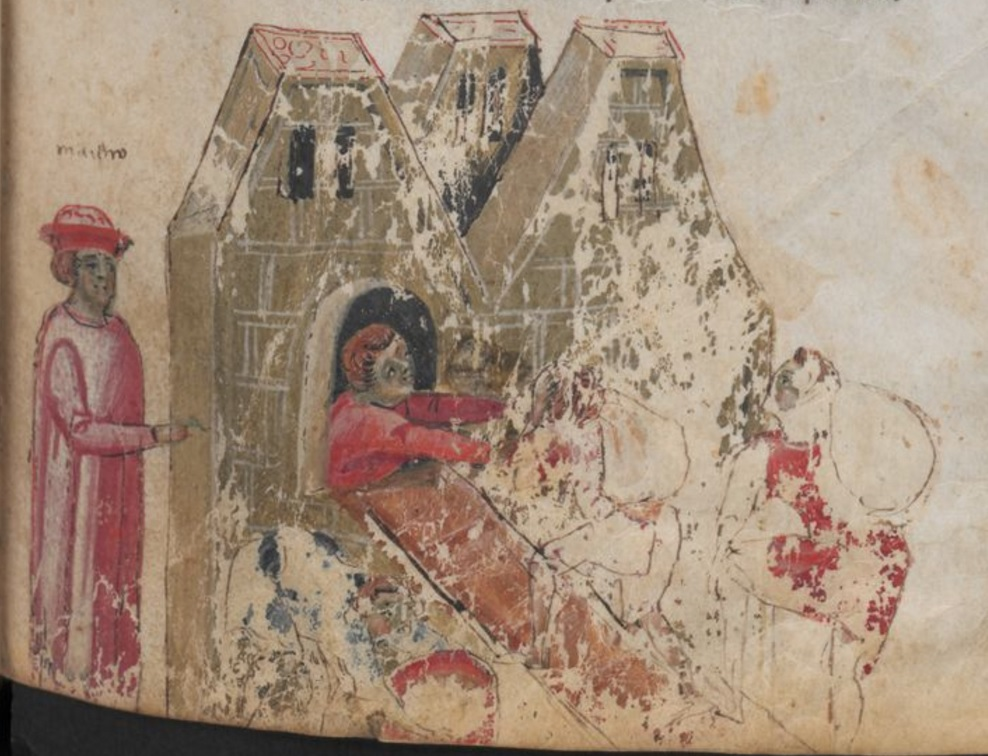 Detail from a late 14th-century copy of the Histoire ancienne jusqu'à César, ÖNB Cod. 2576, fol. 39r. This first portion of the Histoire ancienne is a reworking of Genesis. The text at the top of this page deals with Joseph gathering grain in preparation for the lean years (Gen. 41:46-57). The image shows Joseph overseeing the storage of grain in the Pyramids and is similar to the imagery found in the mosaics in the atrium of St Mark's Basilica in Venice.